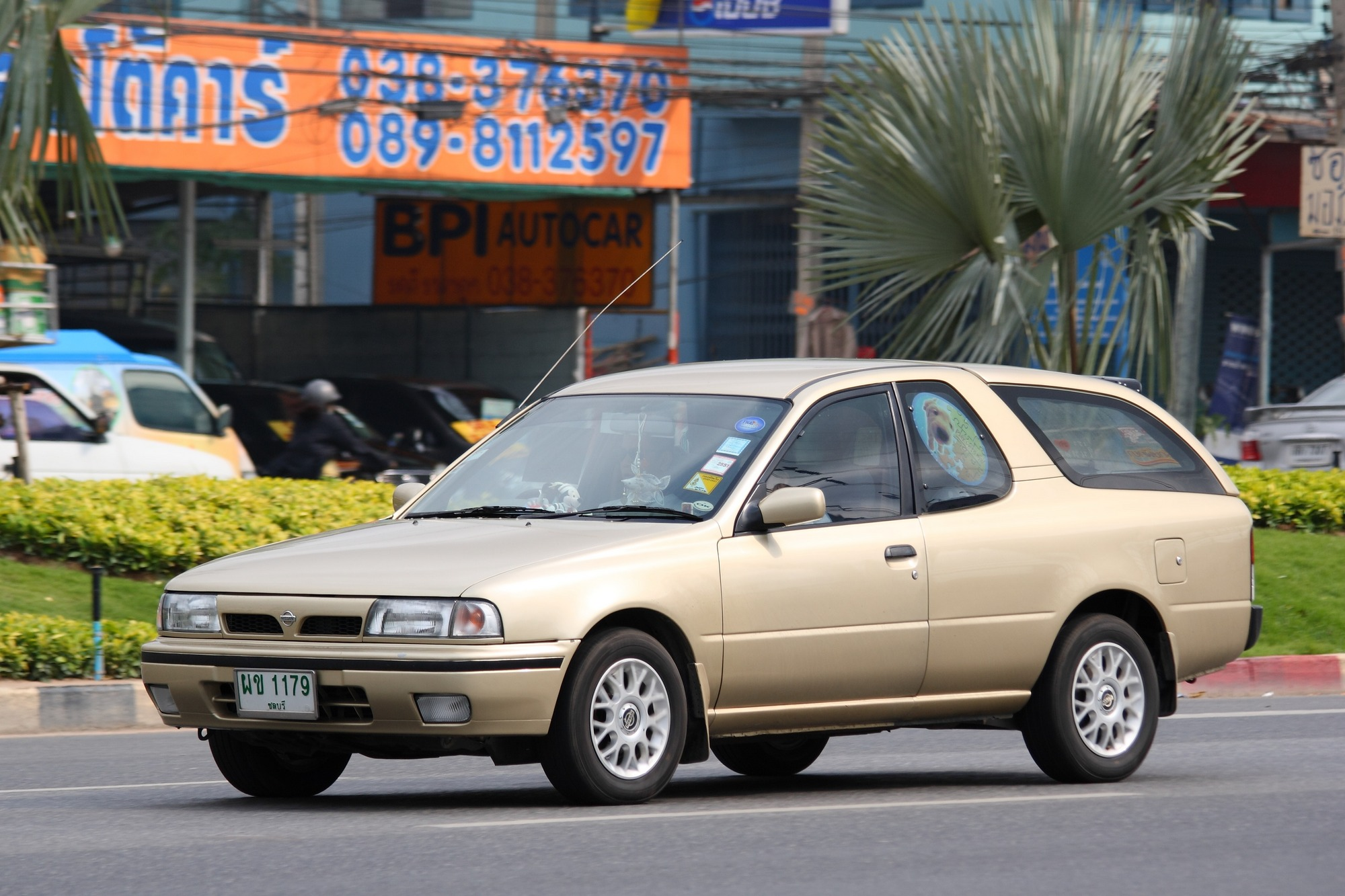 Nissan NV in Pattaya, Thailand